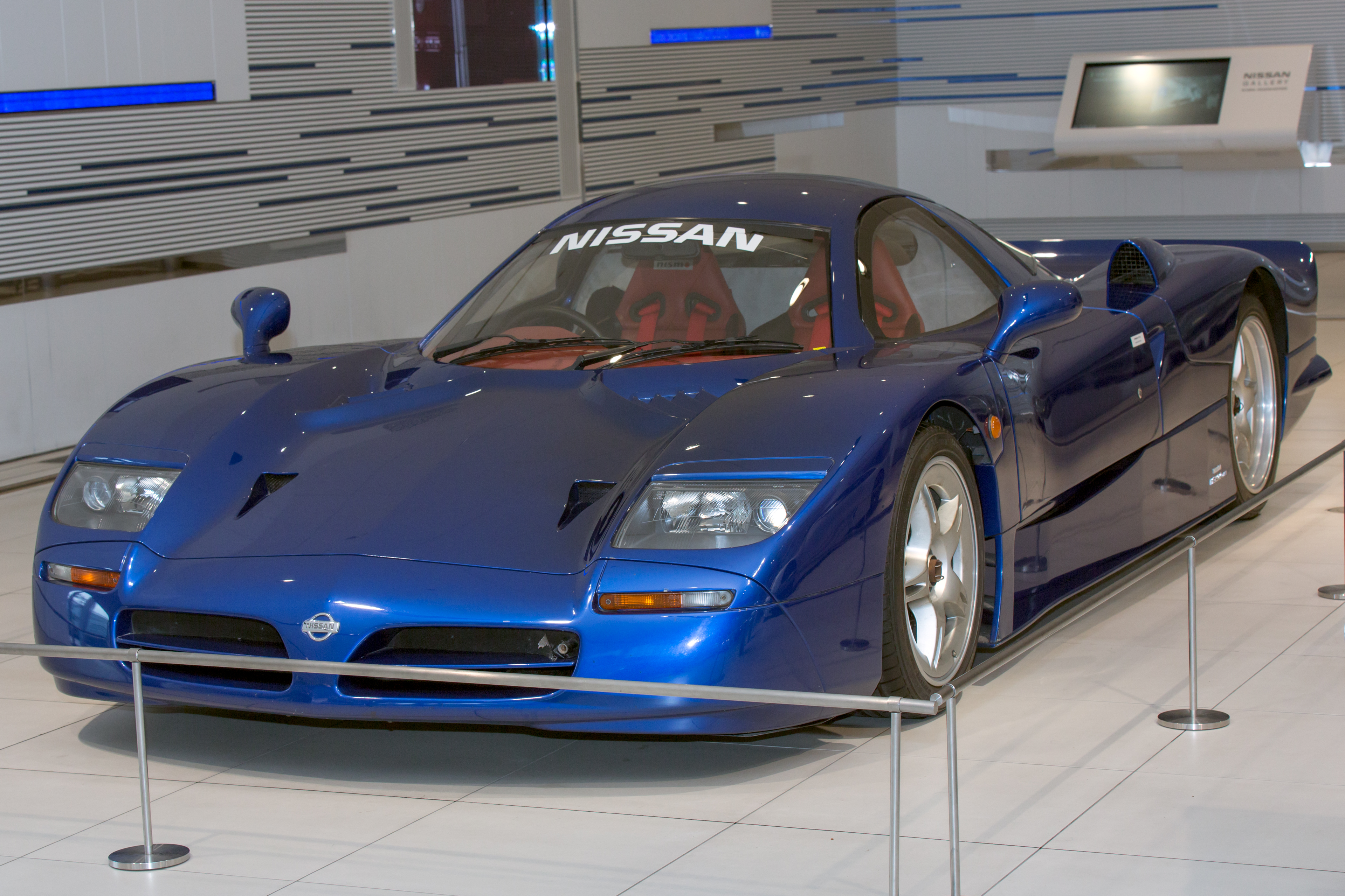 1998 Nissan R390 GT1 road car